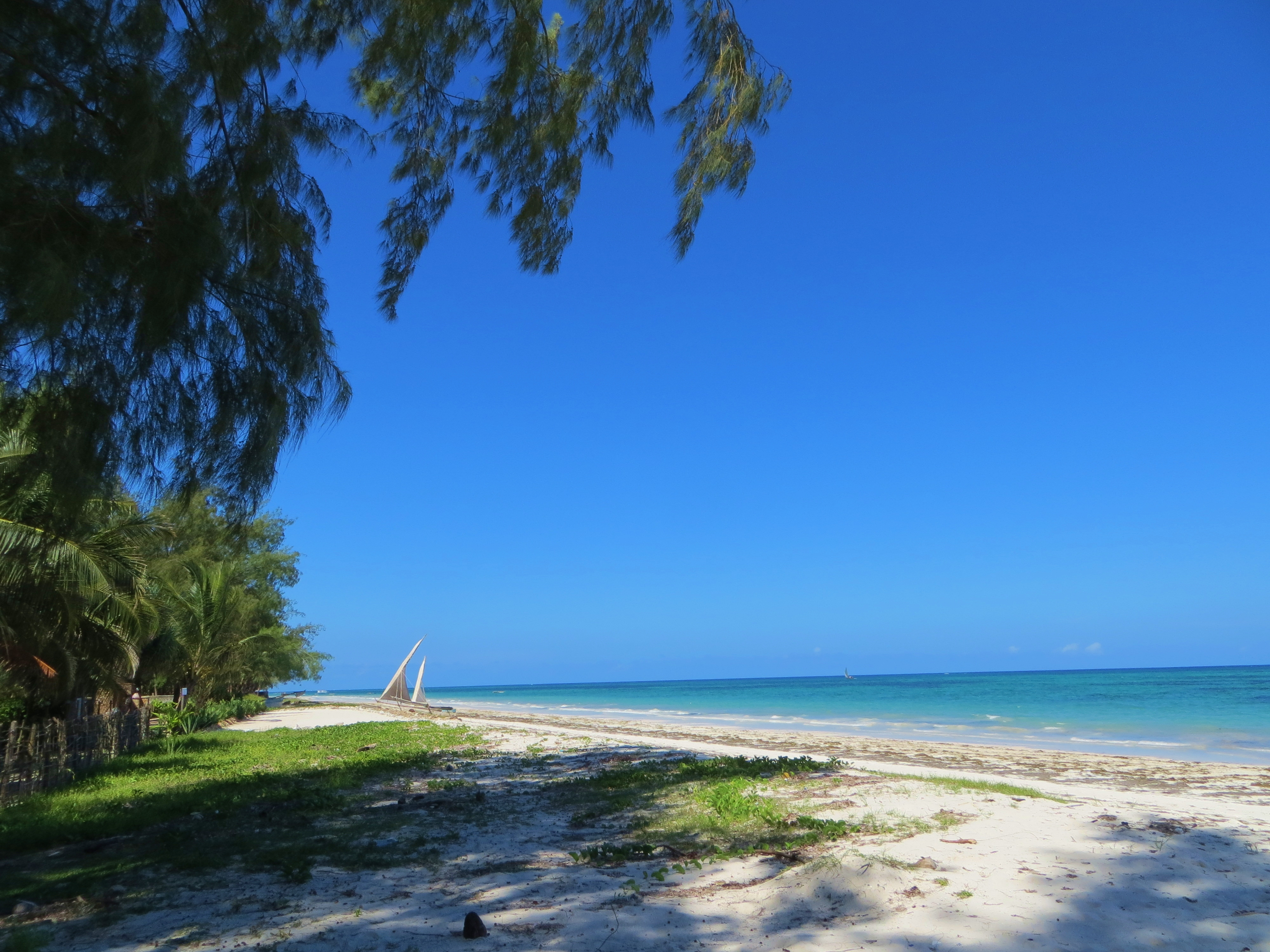 Diani beach, Kenya